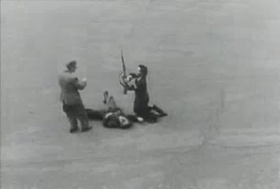 Screenshot from the movie, showing two Parisians (possibly FFI forces) disarming a recently killed German soldier. In the frames before this, the soldier is seen being shot, as Parisian snipers directly overlooking Notre-Dame Cathedral watch him die. In the next few scenes, the woman and the man will remove his rifle, a pistol and other objects.